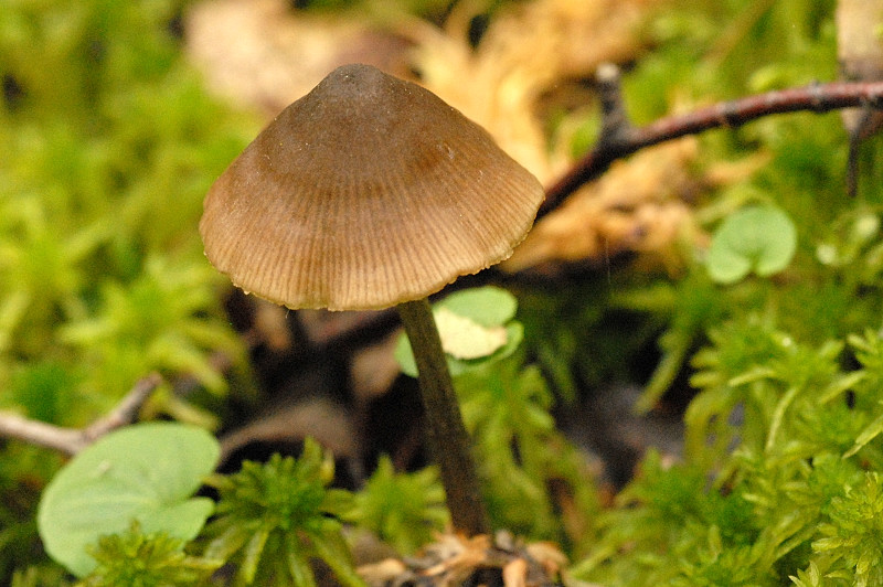 Entoloma conferendum from Commanster, Belgium. If you think this is a different taxon, please contact James Lindsey.